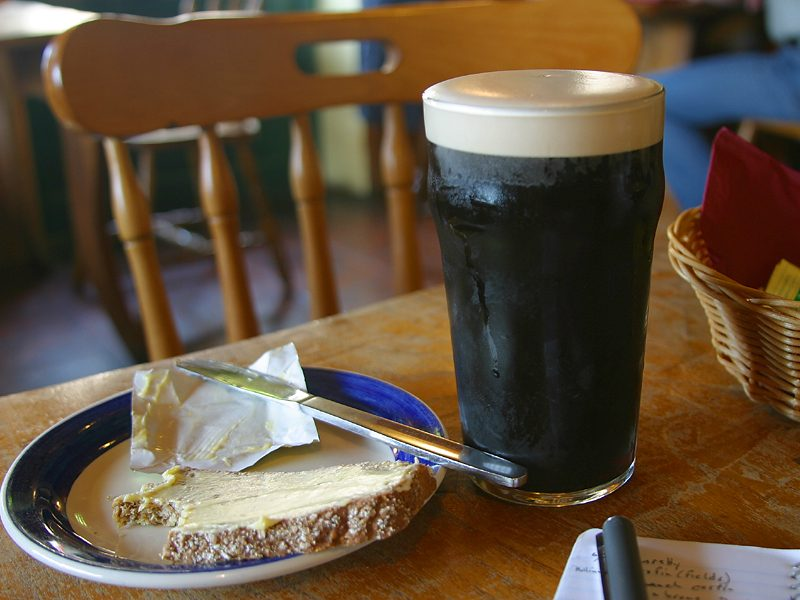 Pint of stout from